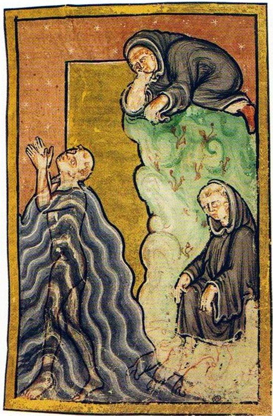 A miniature in the British Library Yates Thomson MS 26, Bede's Prose Life of St Cuthbert, depicting the miracle where sea-creatures tend to Cuthbert's feet before a watching cleric